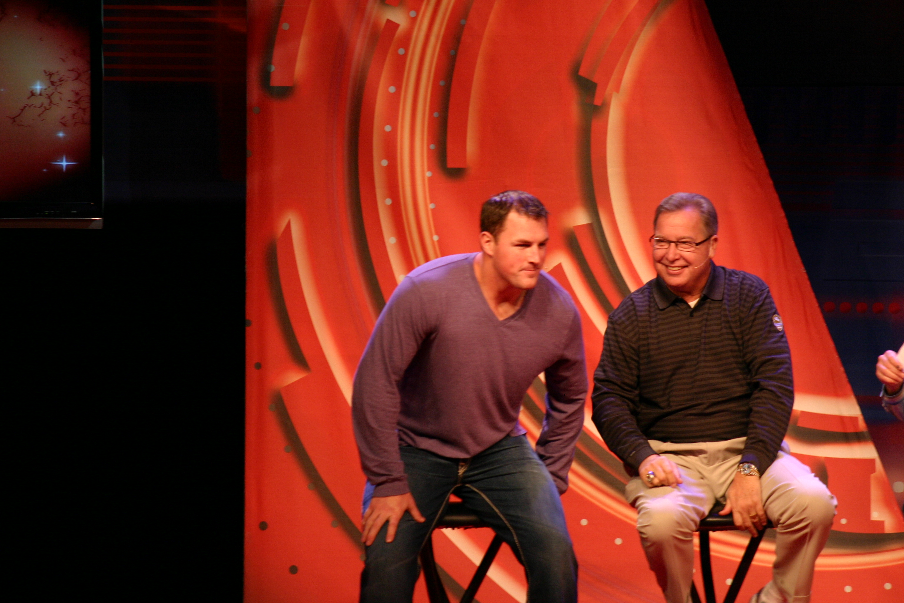 Jason Witten and Ron Jaworski at Inside ESPN NFL Live in the Premiere Theater at ESPN The Weekend, February 26, 2010